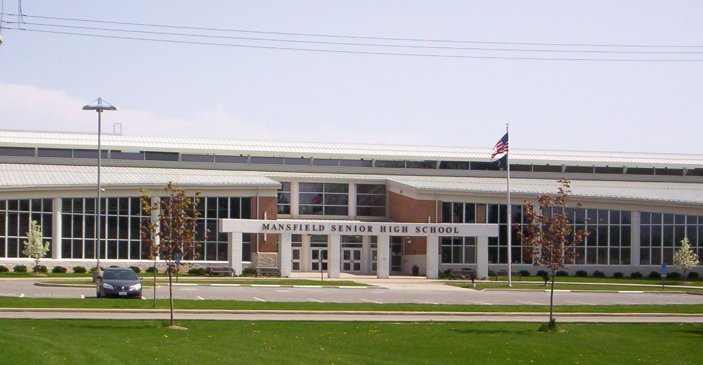 A view of the Mansfield Senior High School building on North Linden Road in the Mansfield City School District in Mansfield, Ohio.